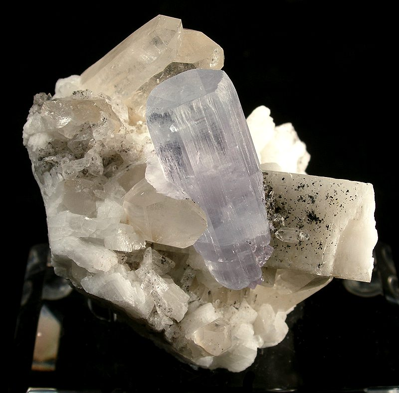 Beryl, Quartz Locality: Shigar Valley, Skardu District, Baltistan, Northern Areas, Pakistan (Locality at ) Size: small cabinet, 6.4 x 5.4 x 5.0 cm Beryl, Quartz and Feldspar An unusual lavender-colored beryl, 3-cm long and doubly-terminated, like none I have ever seen form this region or anywhere. I bought this as a trimmer contained within a larger specimen from Herb Obodda after one of his trips, I think 2 years ago. I still have not seen anything like it. The crystal; is absolutely gemmy and transparent, and lustrous, and has a definite tint of lavender color to it. I wouldn't have believed this to be real from some dealers. In sunlight it goes colorless, but in halogen there comes the color. The crystal is doubly-terminated and elegantly perched here, and would be good even if it were just a goshenite (colorless) but i think it is far more unique and significant. Comes with custom base.